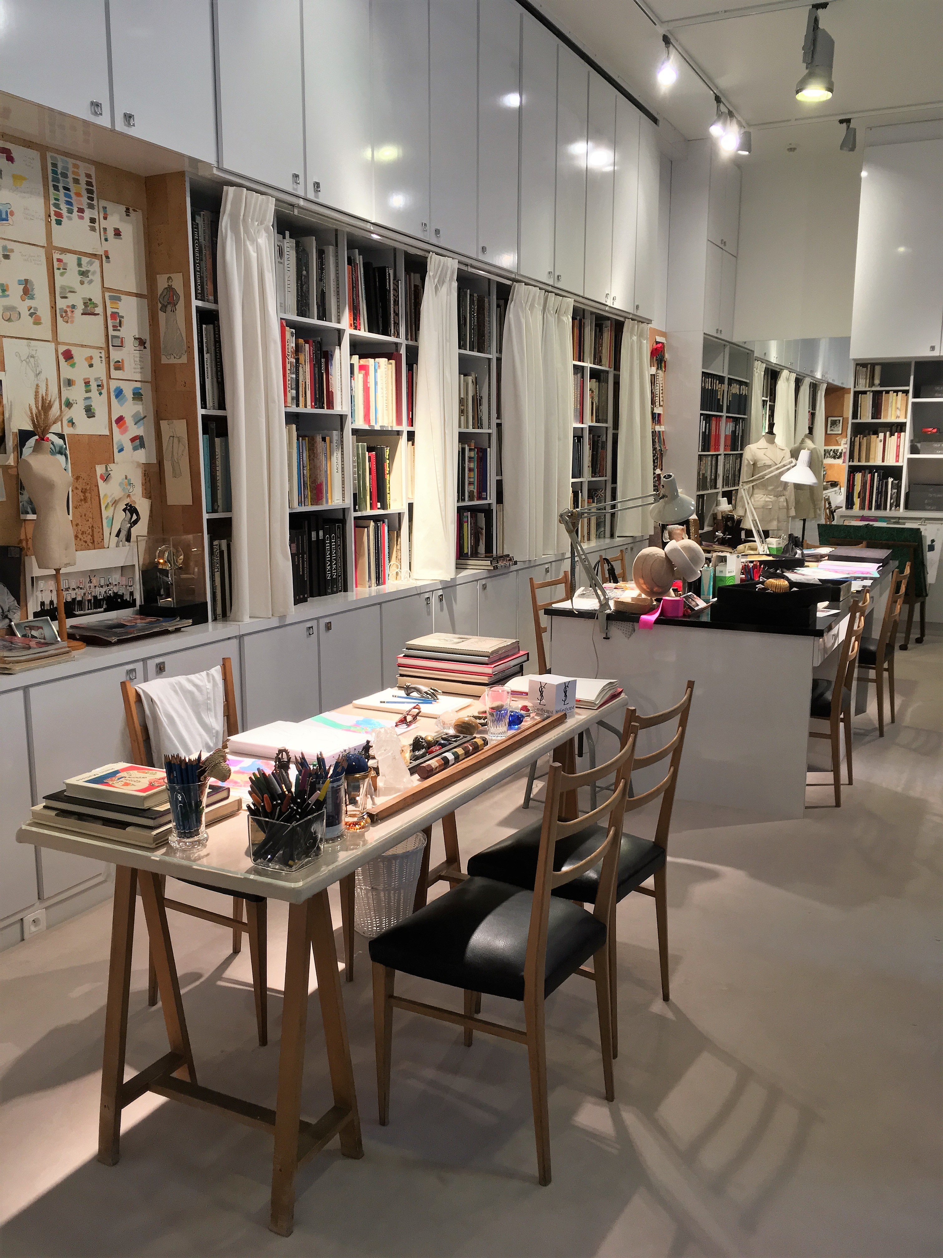 Yves Saint-Laurent workshop inside the Paris Yves Saint-Laurent Museum.